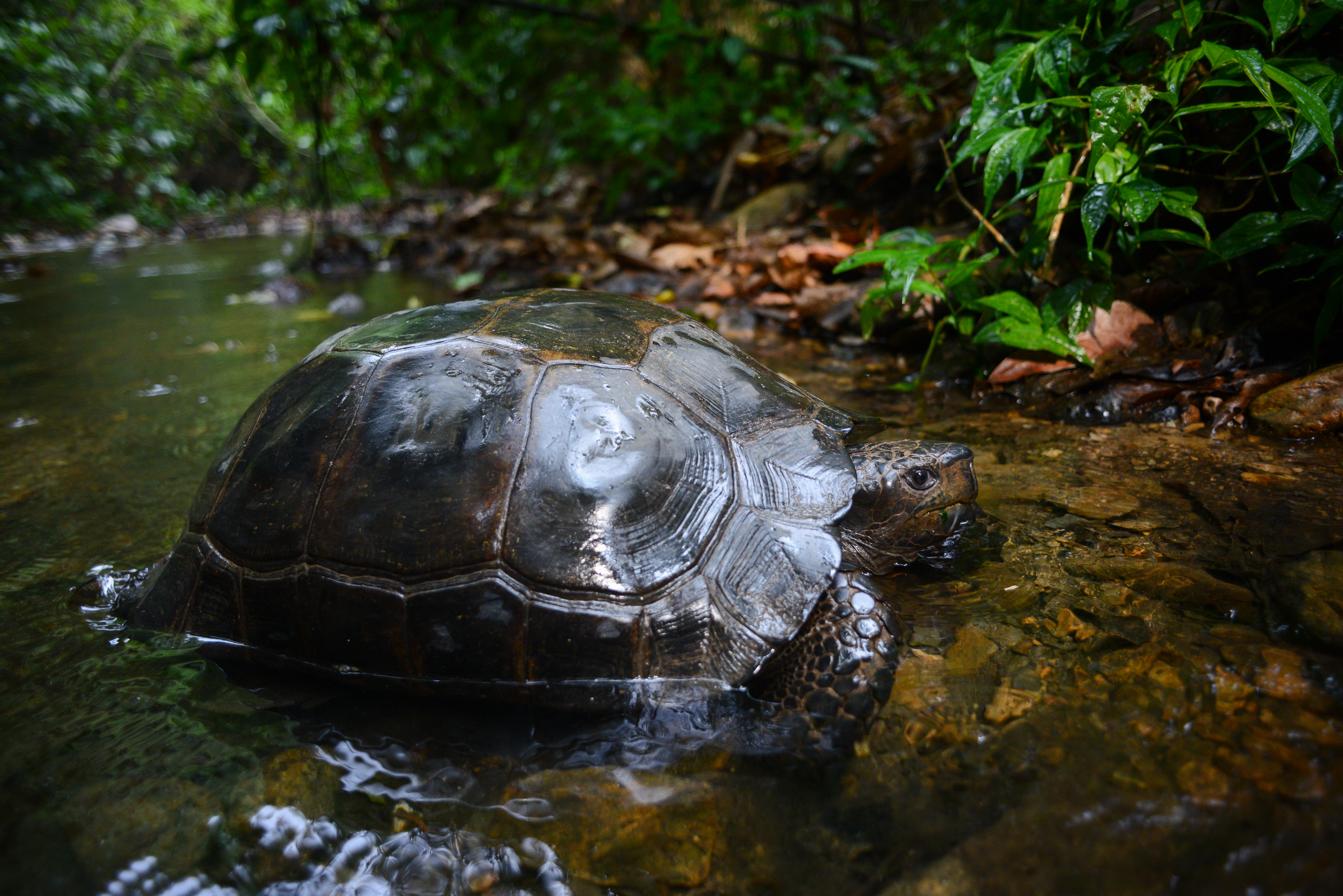 Manouria emys, Asian forest tortoise - Kaeng Krachan National Park. Photo by Thai National Parks